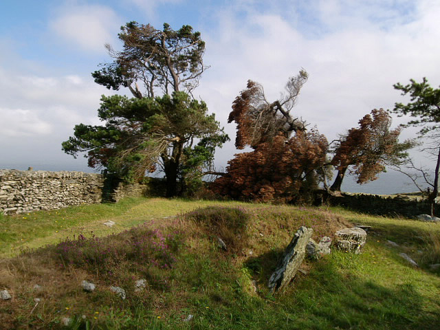 Ballafayle cairn, Maughold. Isle of Man. A neolithic burial site.